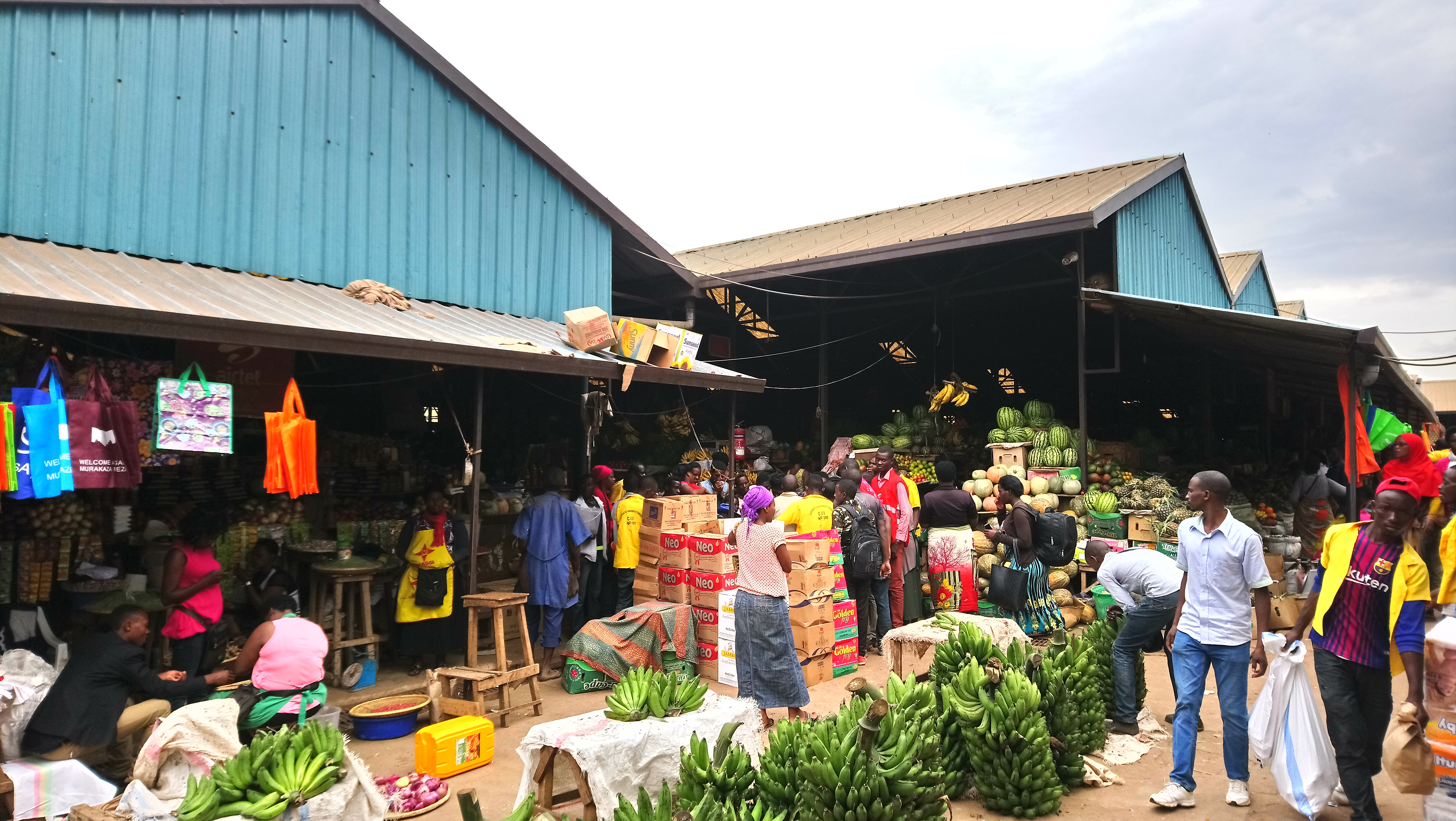 A market in Kigali, Rwanda.